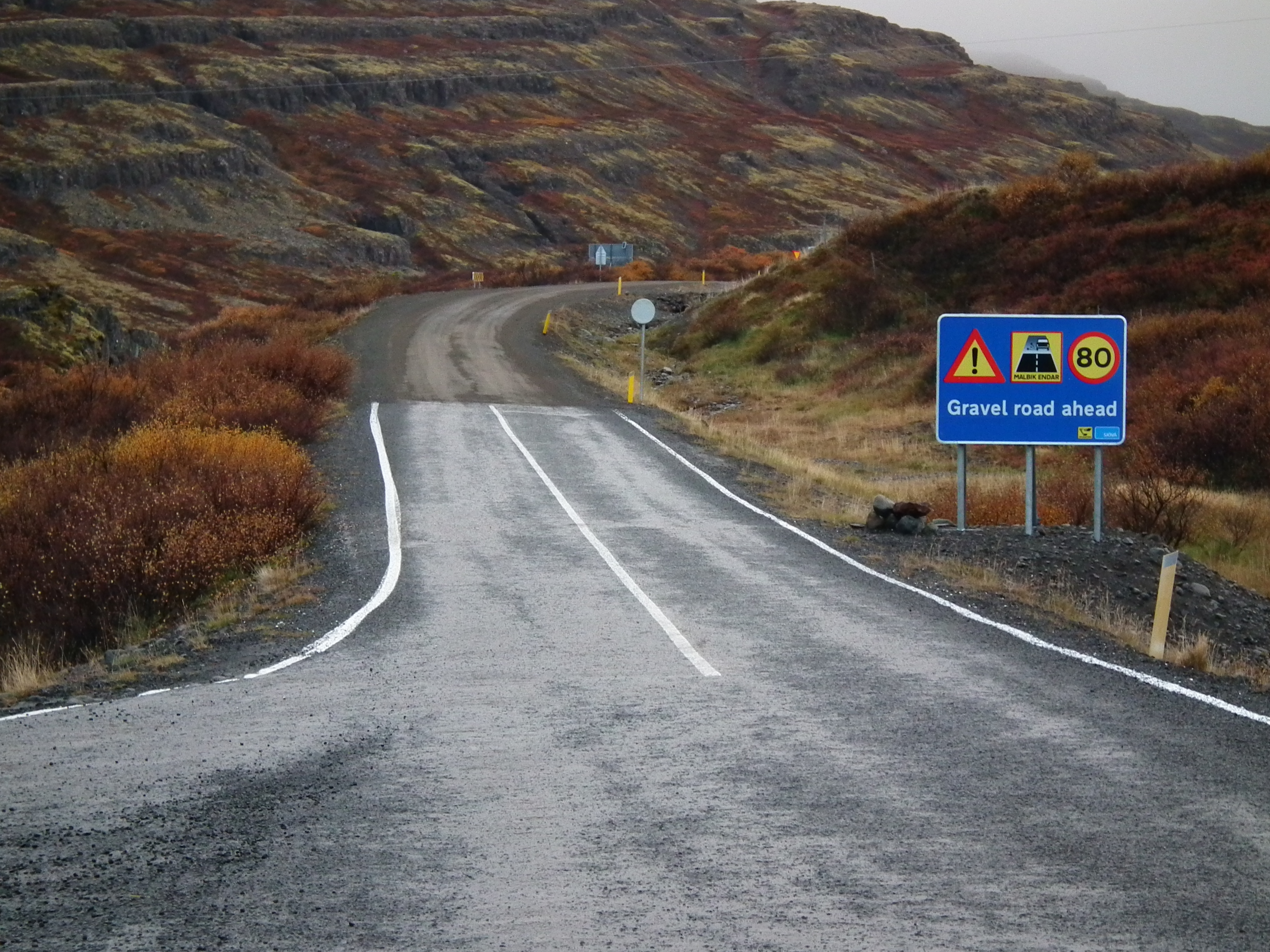 Road 60 in Iceland. Sign saying that this is the end of the asphalted road.